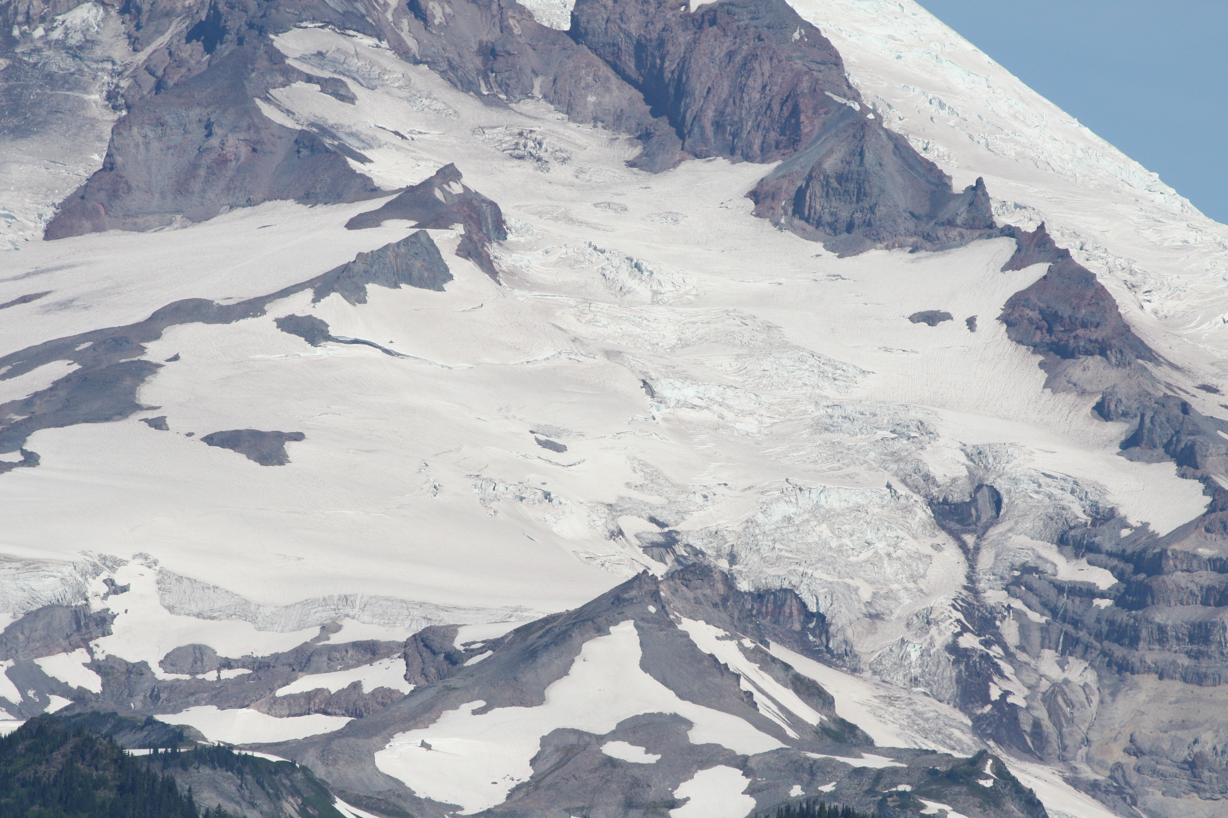 Cowlitz Glacier (from top to lower right); Anvil Rock (upper left center); Paradise Glaciers (lower left); Cathedral Rocks (right edge); Cowlitz Rocks (bottom center); Williwakas Glacier (below, on the southwest slope of Cowlitz Rocks but mostly behind the southeast peak (7163') and ridge of Cowlitz Rocks)